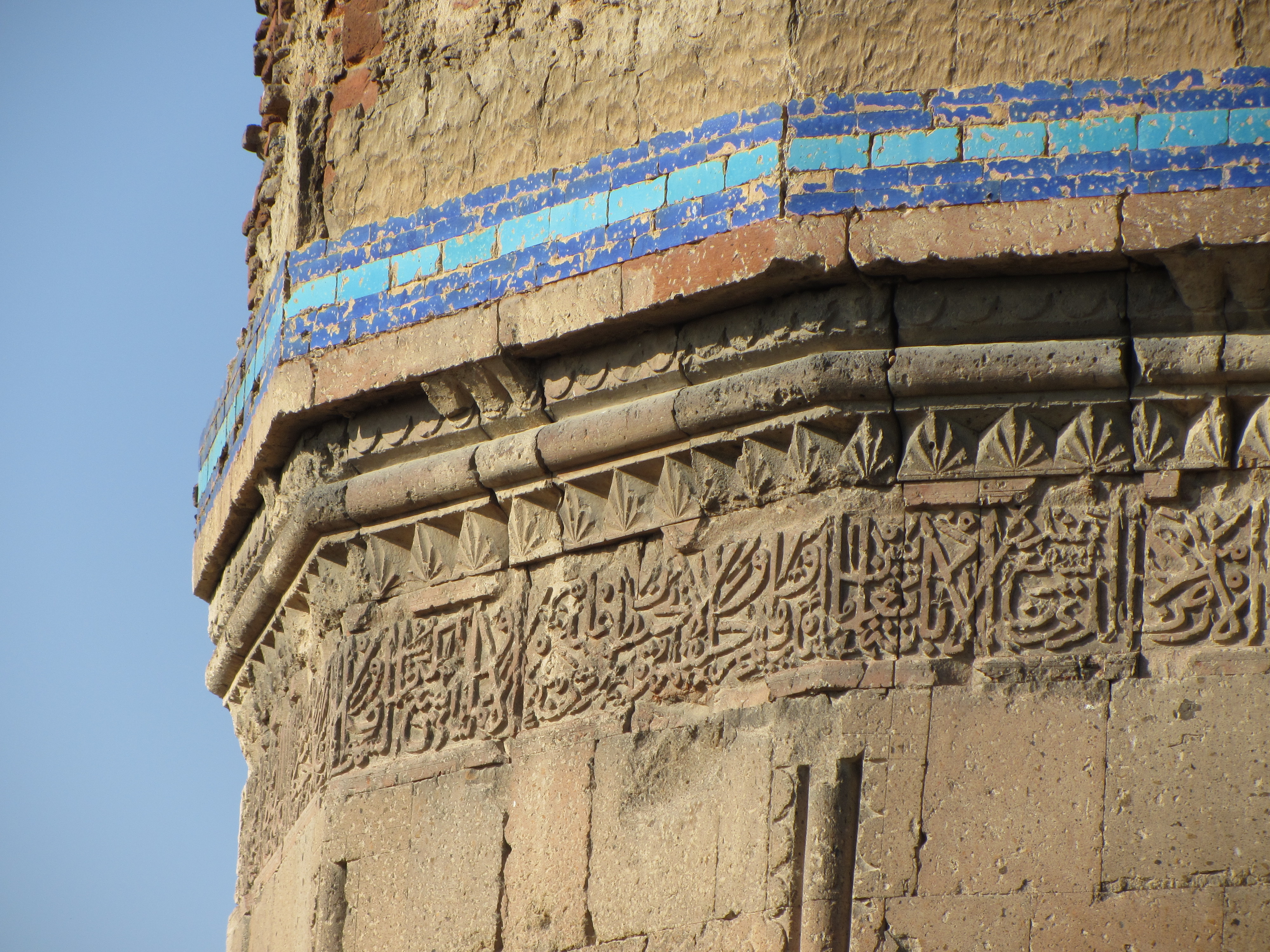 The Argavand Funerary Tower (Qara Qoyunlu mausoleum) built in 1413. It is located in the village Argavand near Yerevan. Fragment of inscription.